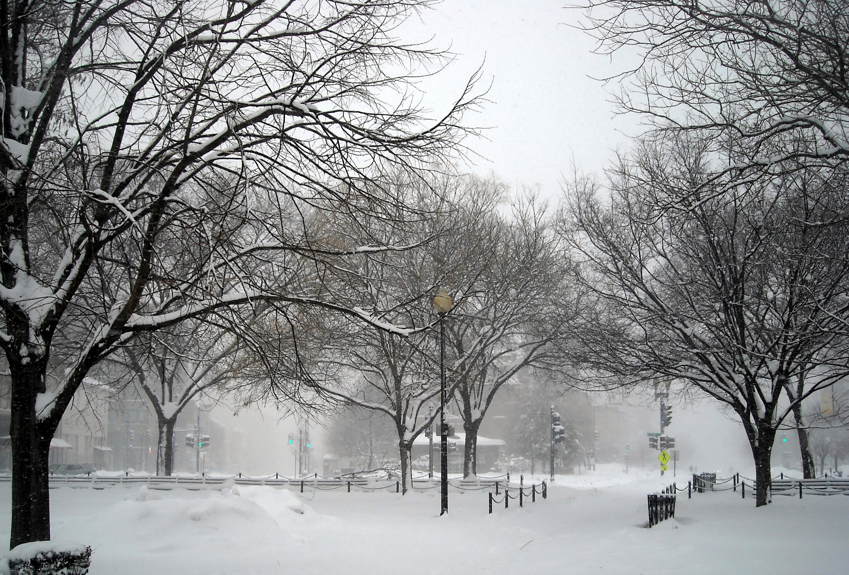 Dupont Circle in Washington, D.C., during the Second North American blizzard of 2010. High winds and blowing snow resulted in extremely low visibility. Massachusetts Avenue, N.W., is on the right-hand side; P Street, N.W., is on the left.